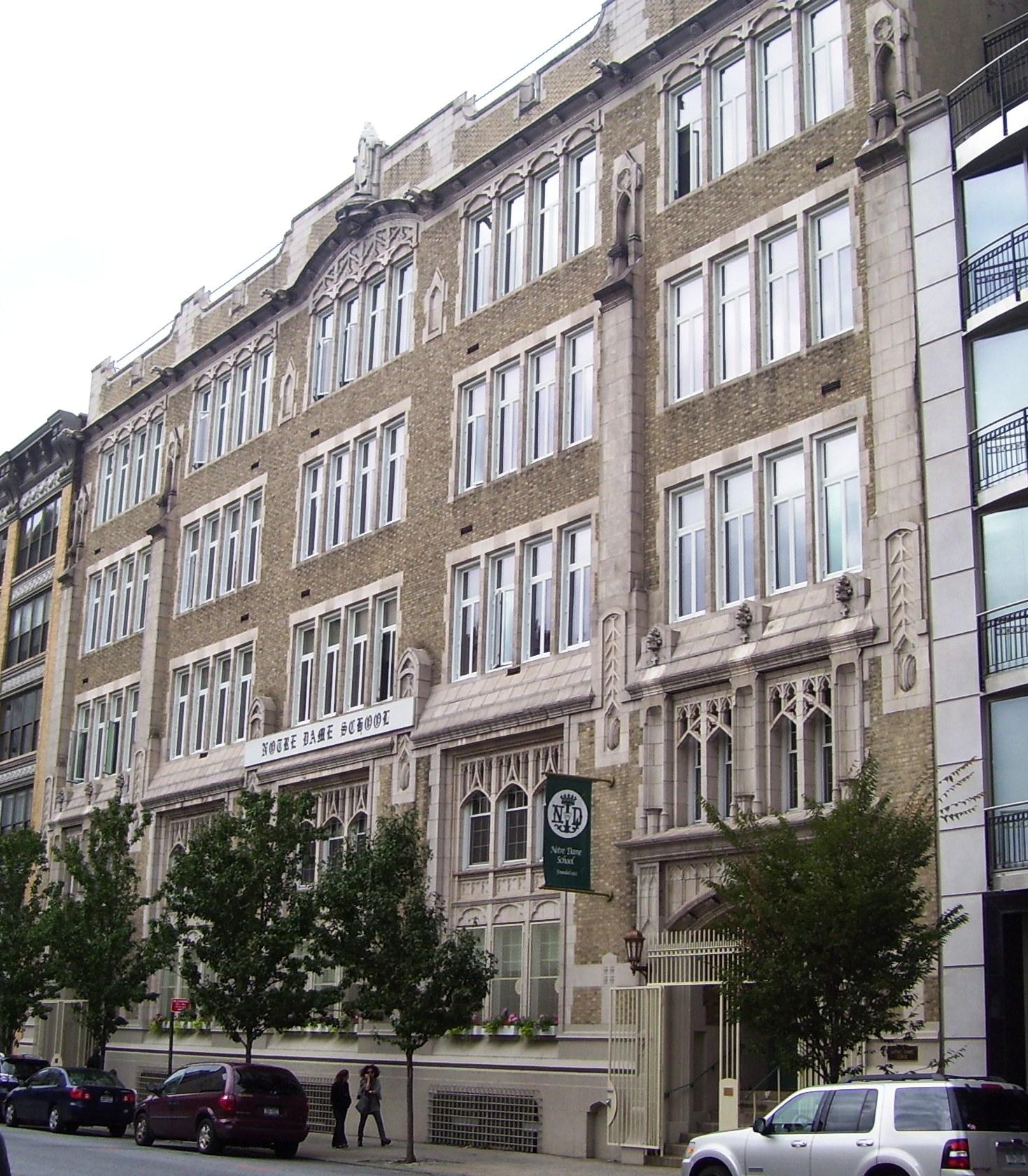 The Notre Dame School of Manhattan is a Roman Catholic prepatory school for girls, founded in 1912 by the Sisters of St. Ursula, and located at 327 West 13th Street between Hudson Street and 8th Avenue in the Greenwich Village neighborhood of Manhattan, New York City. The school has been located in a number of different places: West 142nd Street (1912-1943), West 79th Street (1943-1989) and 104 St. Mark's Place (1989-2002), before moving to the current building. (Source: School website)